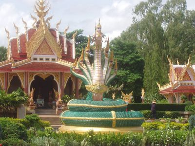 Naga Statue in Sri Sut Tho, Ban Dung, Thailand